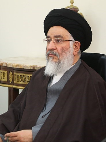 Haddad Adel(left) and Mohaghegh Danad in the Board of Trustees of the Academies of Iran meeting.